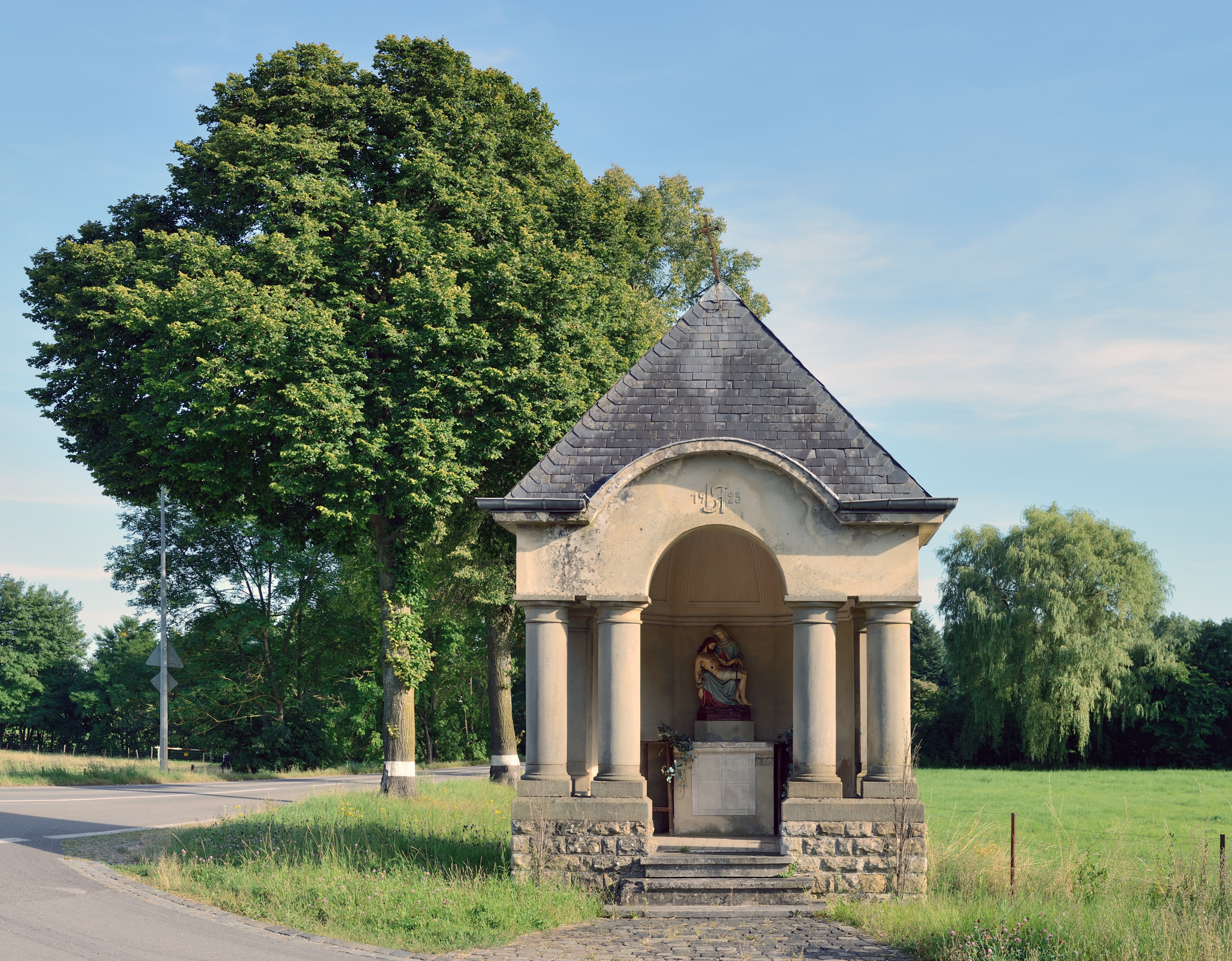 Luxembourg, Beidweiler: crossroad chapel of 1925.